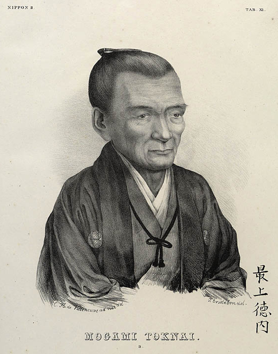 Drawing of Mogami Tokunai (72 years old), by Kawahara Keiga, Edo, 1826 (Siebold, Nippon, 1832)